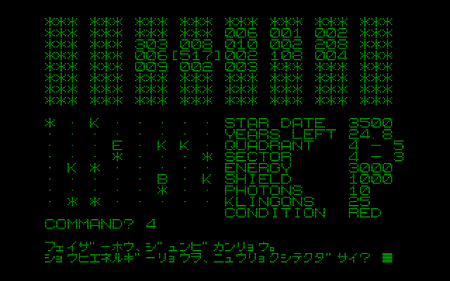 A made-up screenshot of Japanese version of Star Trek Text Game. For 40 x 25 characters screen.